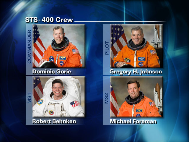 The STS-400 Crew